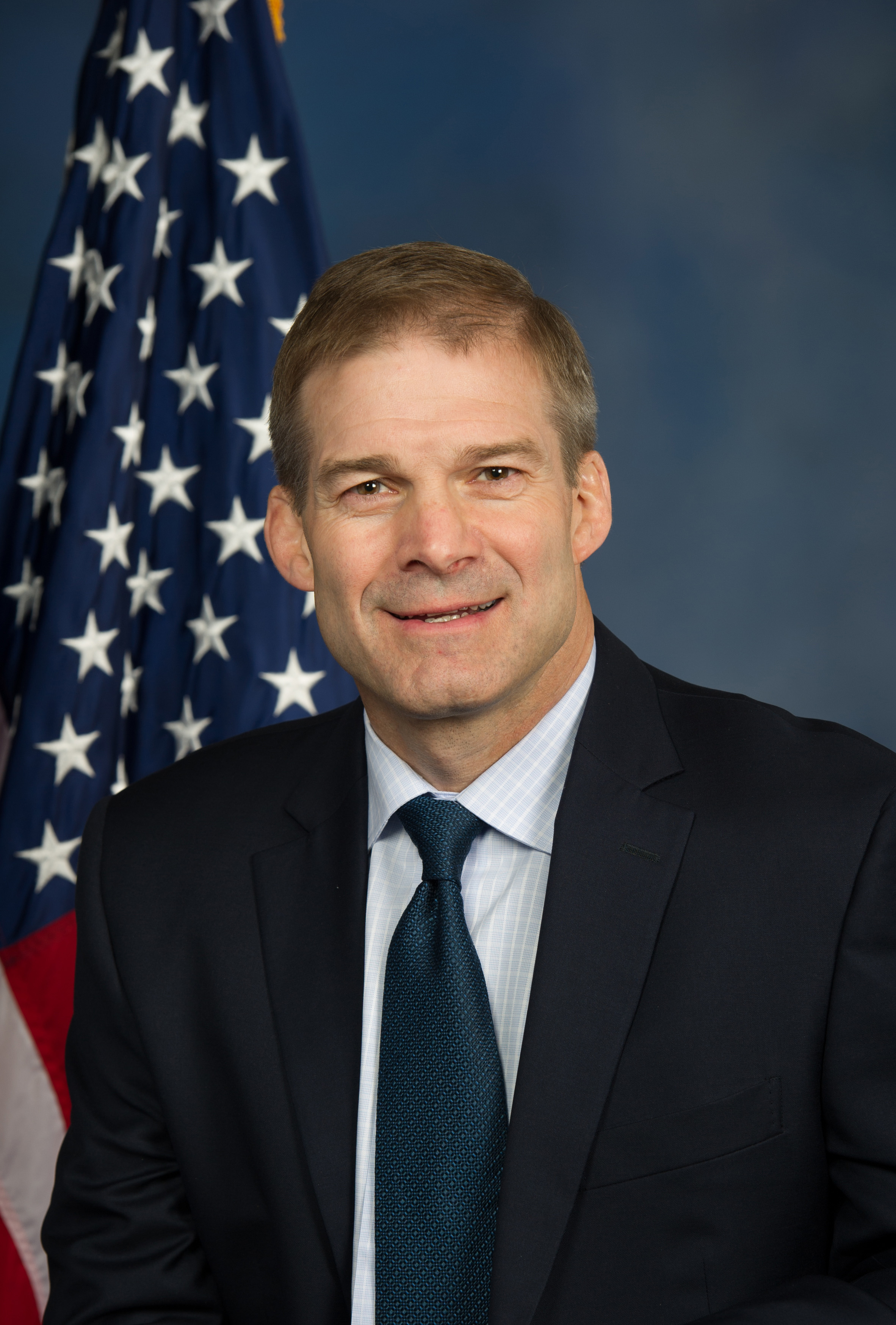 Jim Jordan official photo, 114th Congress